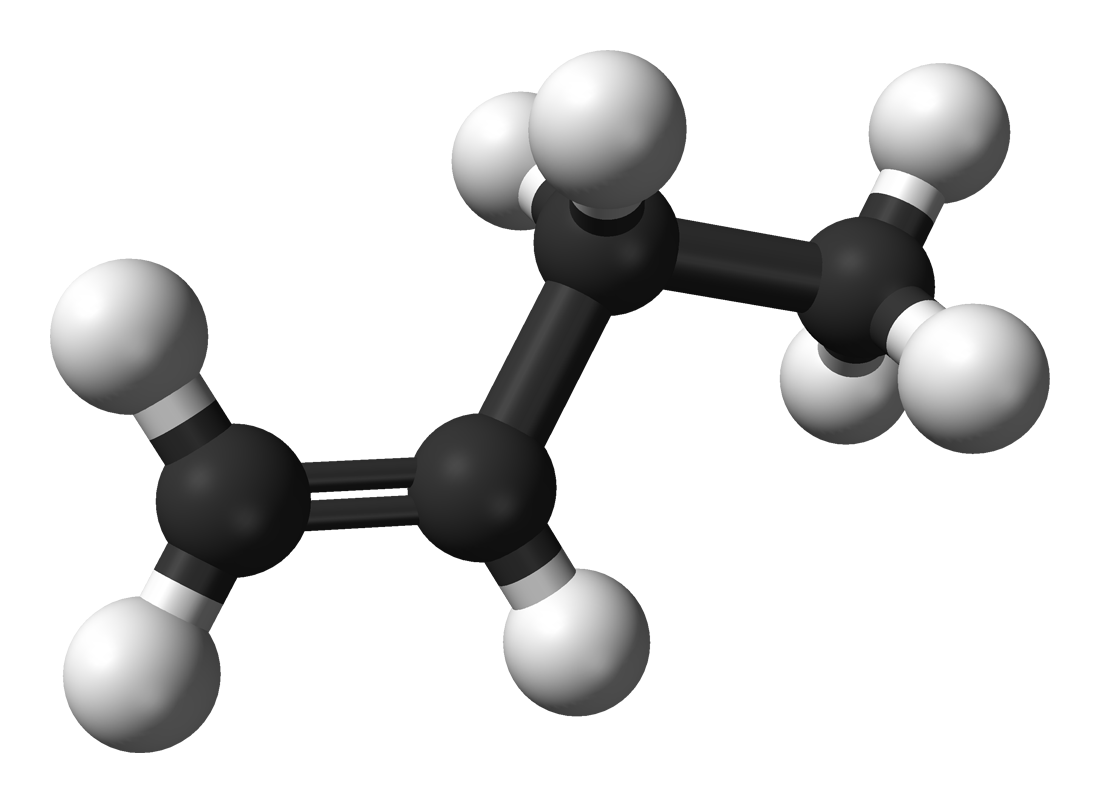 Ball-and-stick model of the but-1-ene molecule